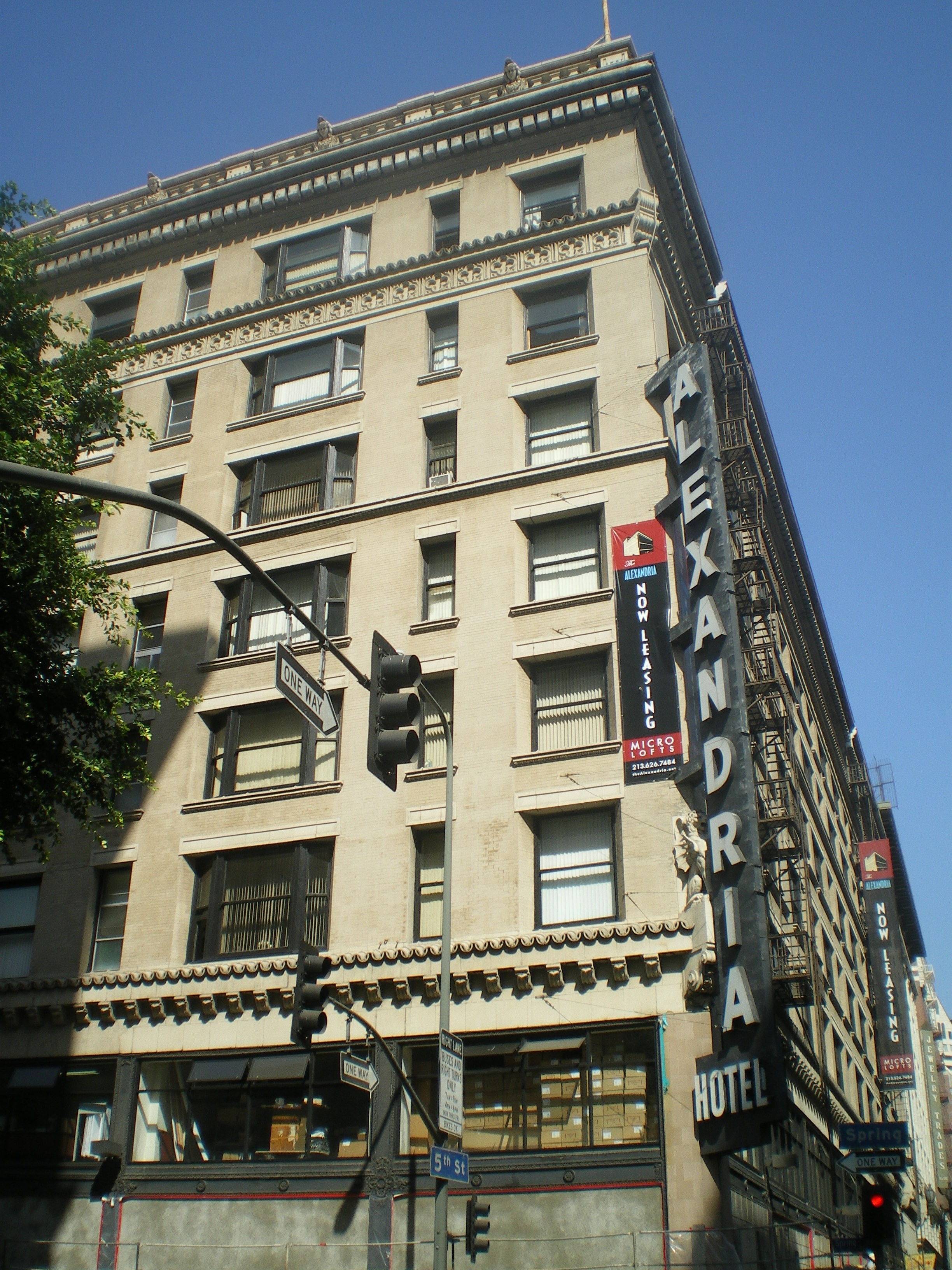 Hotel Alexandria — southwest corner of South Spring Street and 5th, Downtown Los Angeles, California. Historic district contributing property of the Spring Street Financial District, a historic district on the National Register of Historic Places in Los Angeles.